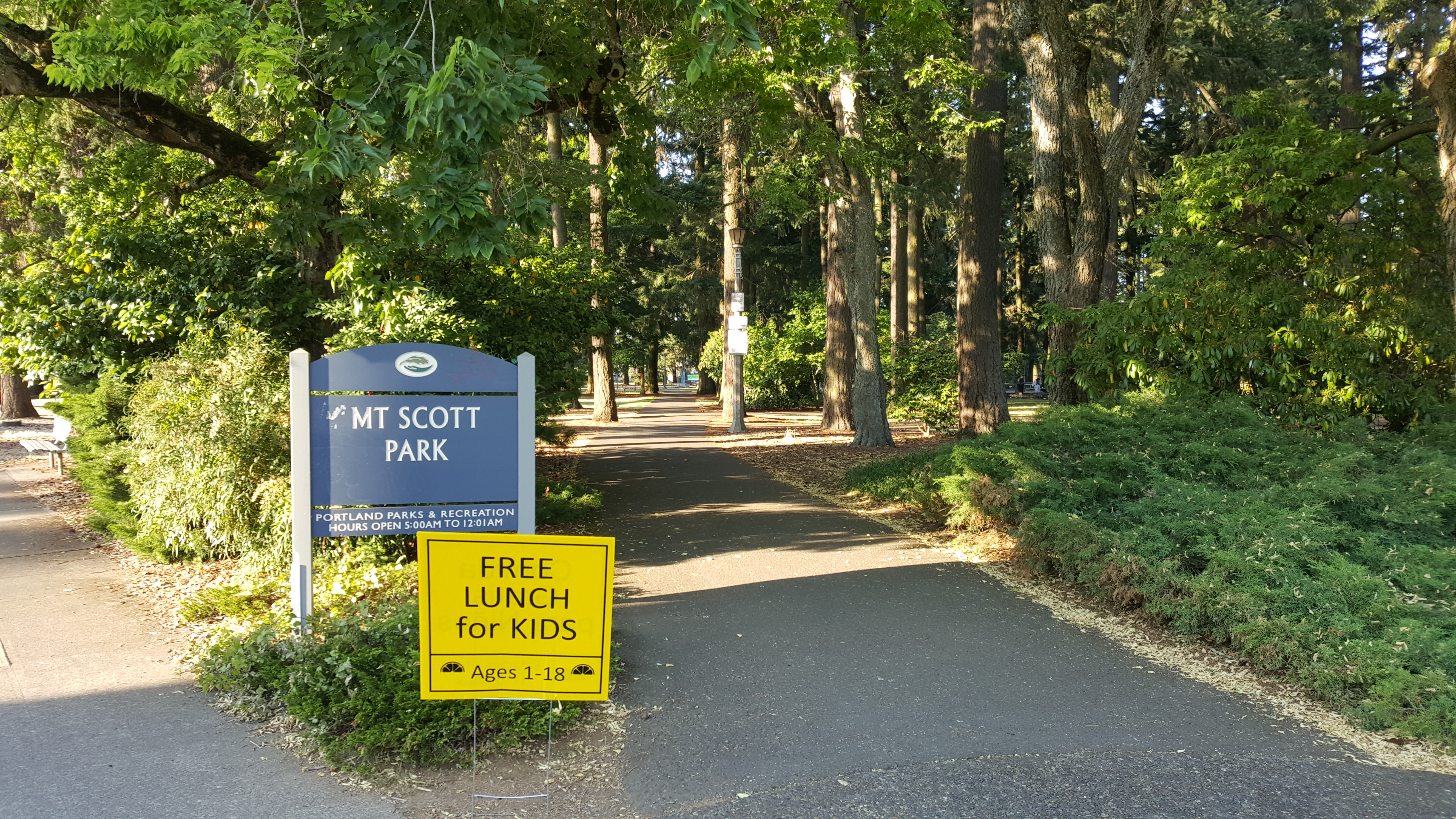 Southeast Portland, Oregon, July 2020